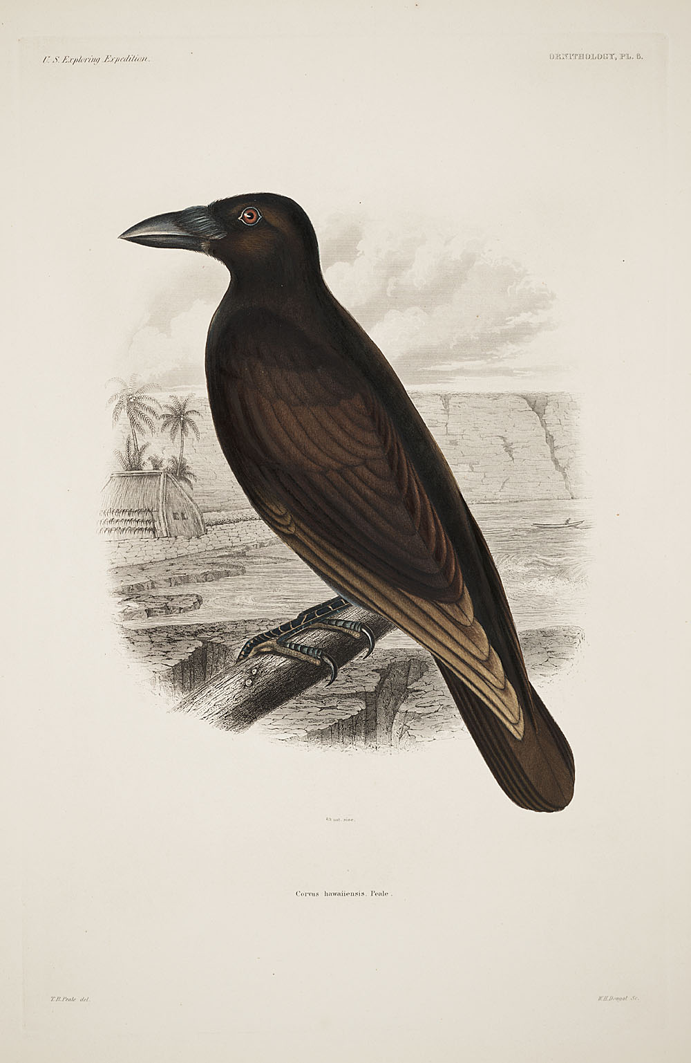 Hawaiian Crow (Corvus hawaiiensis, Peale, 1848)